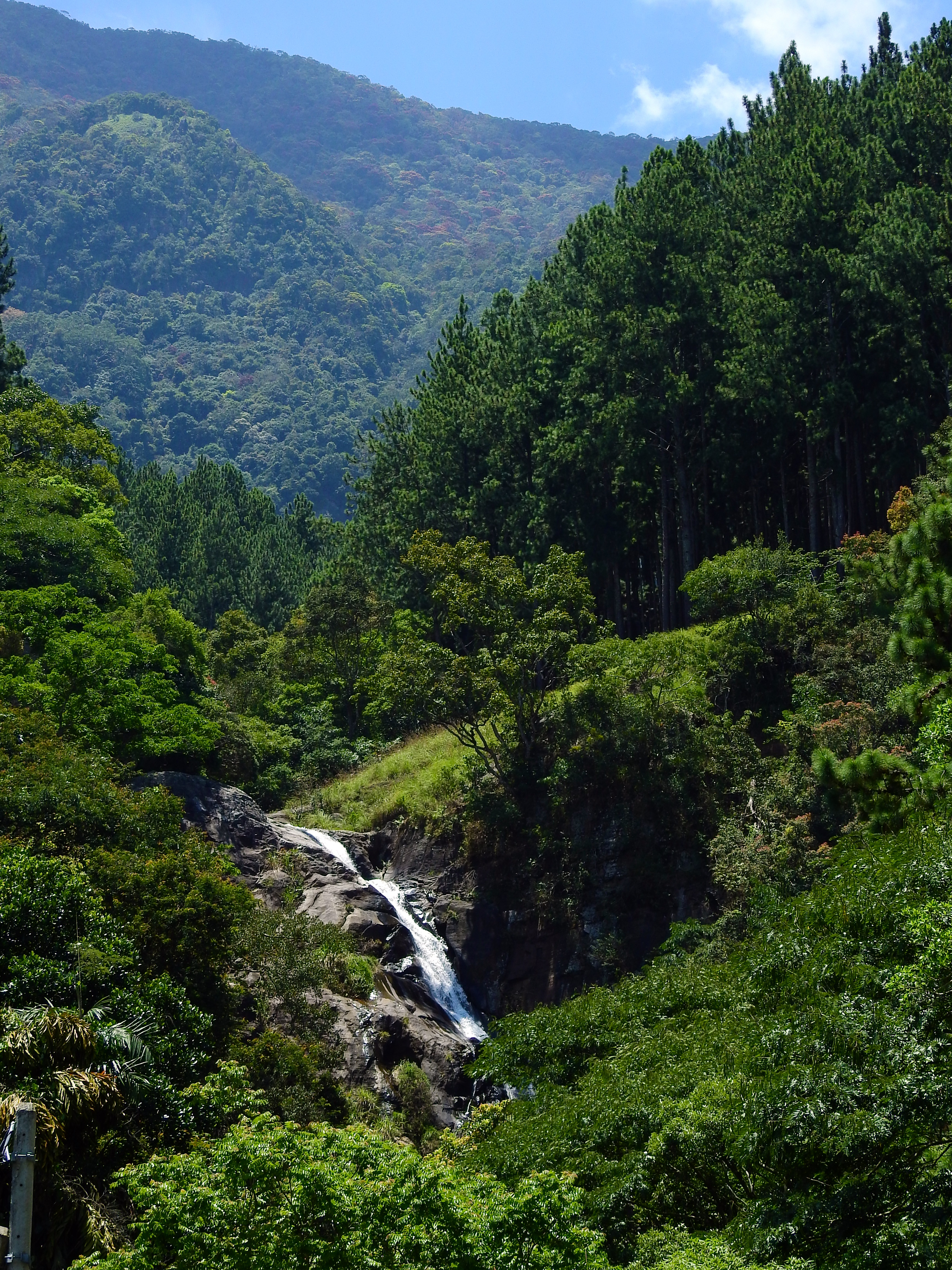 This photo was taken as part of a photo project by Wikimedia Community User Group Sri Lanka, covering current/future hydroelectric dams (and its surroundings) in the Central and Sabaragamuwa provinces of Sri Lanka. User:Rehman handled the photography, while User:Azeez and User:PasinduBR handled the logistics/planning of routes. Description of photo: Surathali Falls. Further information on the subject(s) of the photograph may be found in the category/ies of this file.